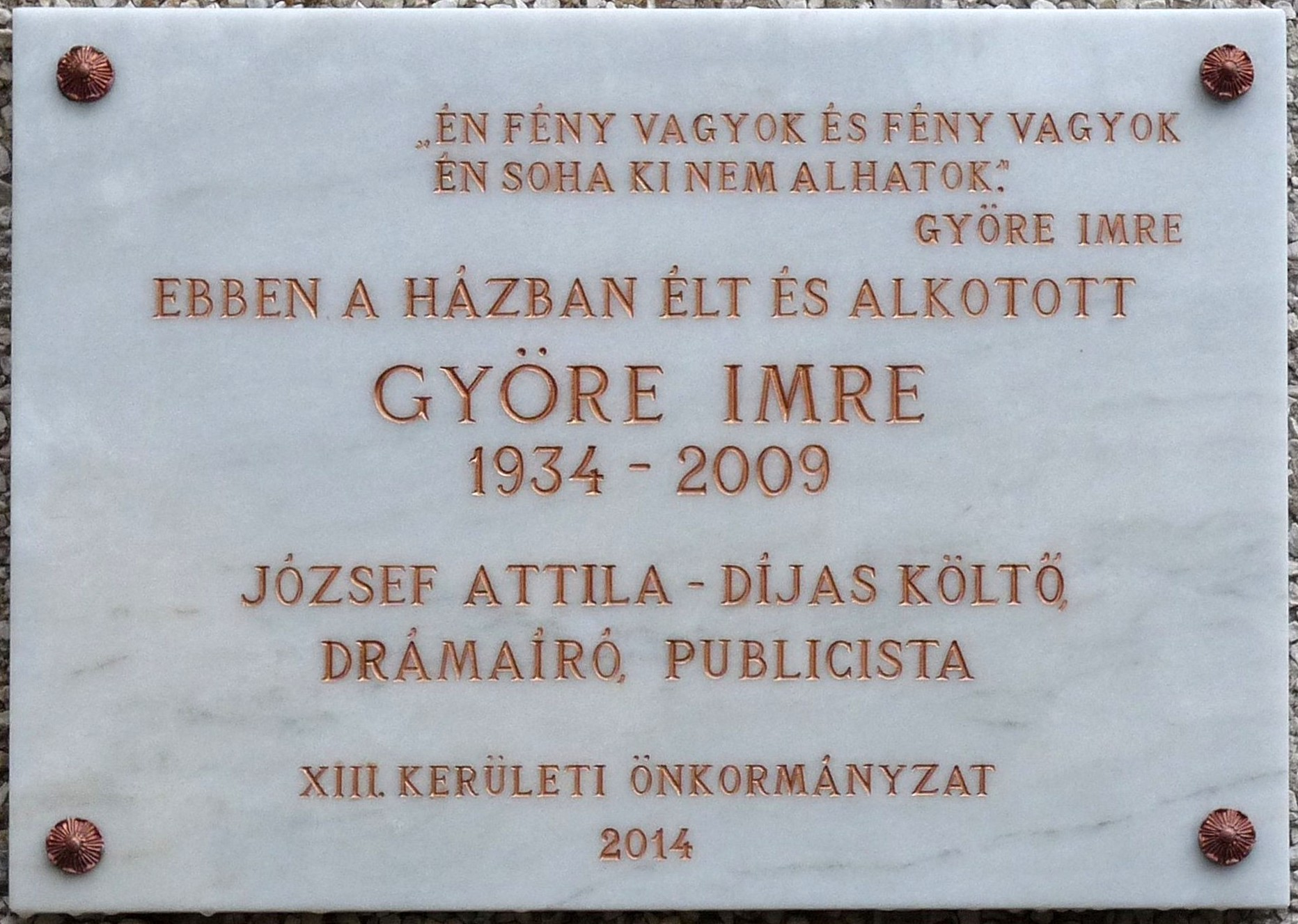 Commemorative plaque to Mr. Imre Györe (1934–2009) Hungarian poet, playwright and publicist. It has been placed on the wall of his former home December 2, 2014. Quote: “I am a clarity and light / I can never be extinguished.” – Imre Györe (Budapest, District XIII, Babér Street Nr 21)